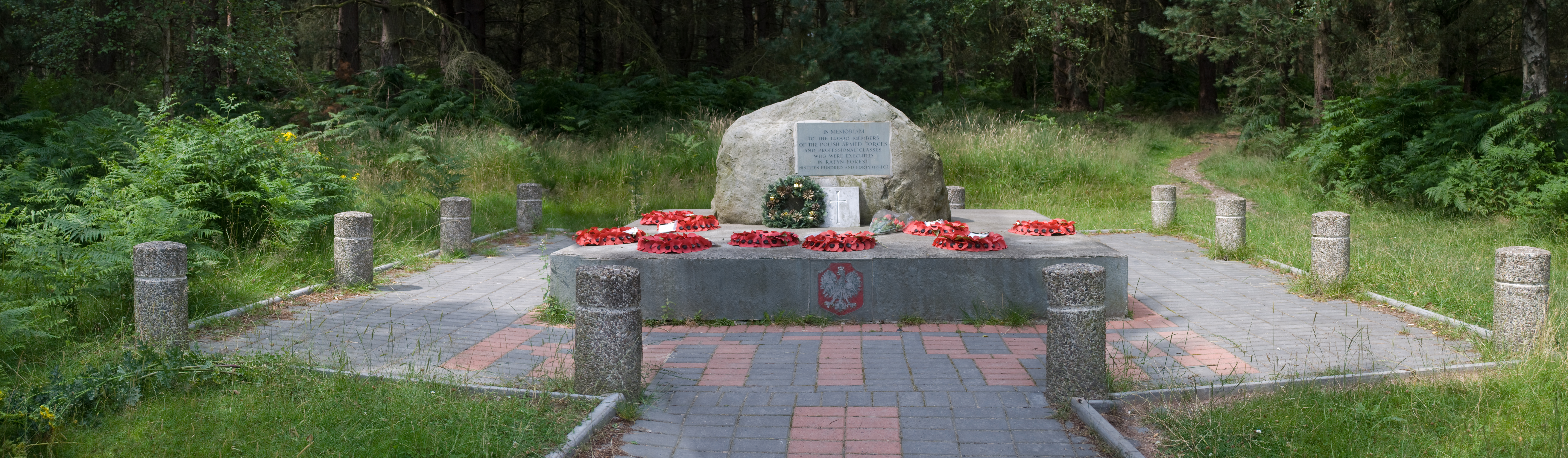 Panoramic photograph of Katyn massacre memorial, Cannock Chase, Staffordshire, UK